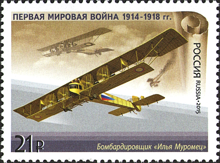 The History of World War I (the ongoing series, issue III). The Russian weapon of World War I. The Sikorsky Ilya Muromets bomber (1913.) The stamp of Russia, 21.00 ₽, 10 September 2015, PTC Marka Catalogue No. 1998, Michel No. 2215. Coated paper. Offset printing. Perforation: comb 12. Size of the stamp: 50×37 mm. Print run: 396,000.